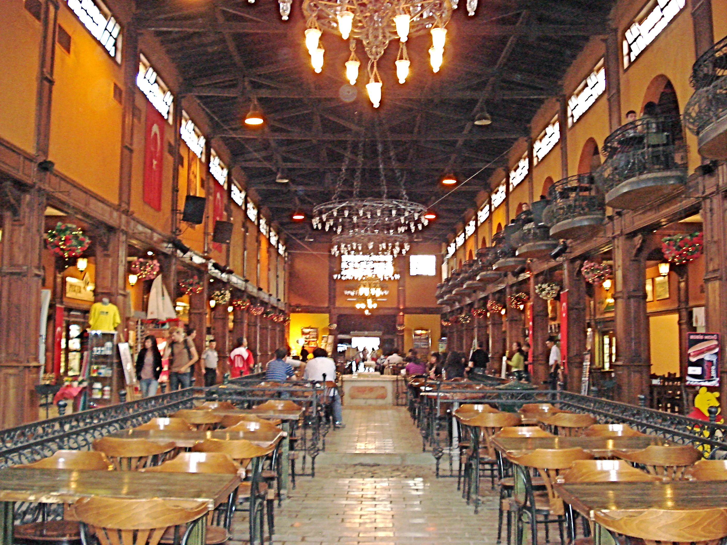 Haller Youth Center in Eskişehir, Turkey